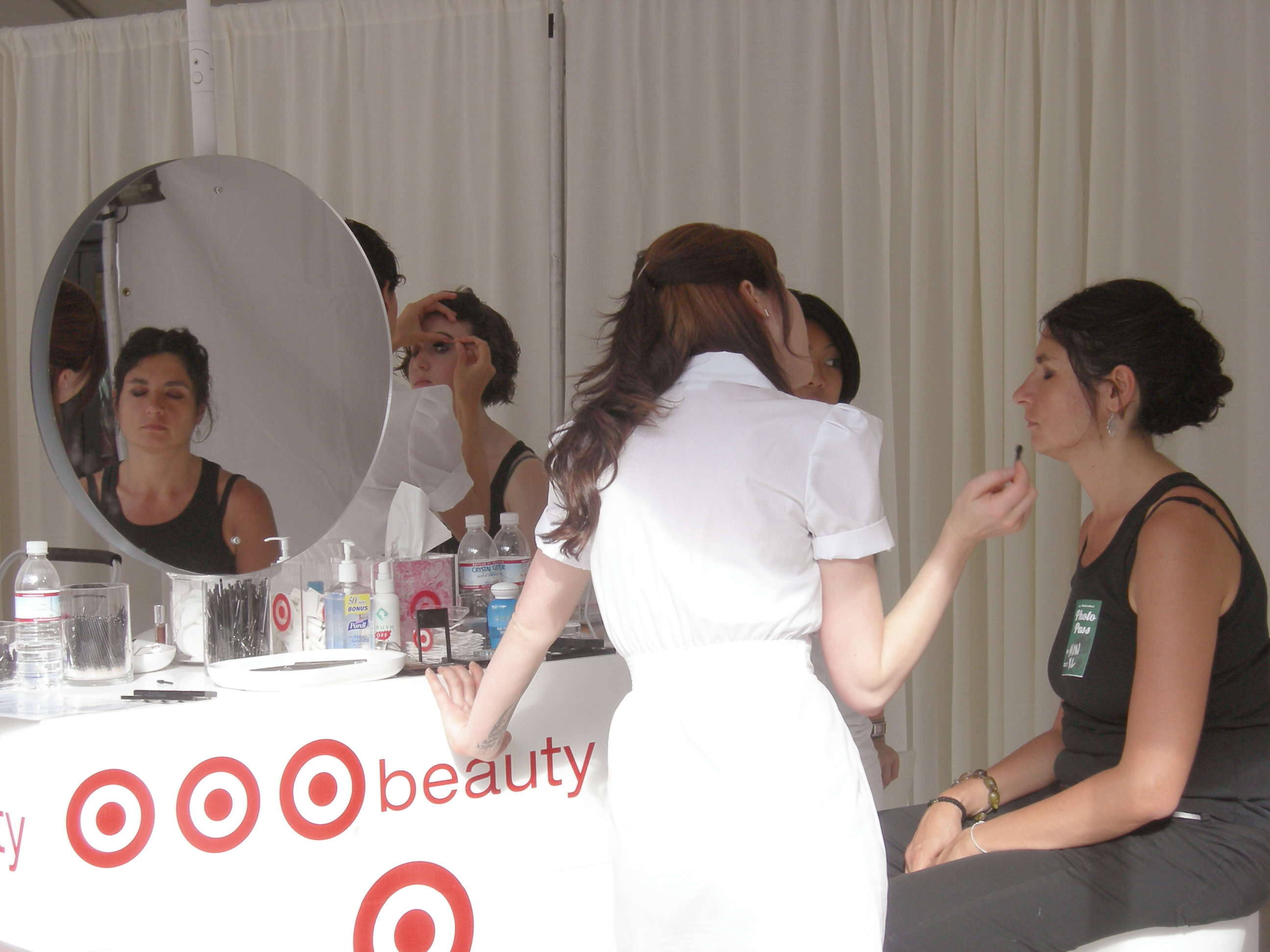 "Beauty carts": professional make-up artists, hairstylists, etc., provided free beauty services as part of Bumbershoot 2007. Bumbershoot is a music and arts festival held every Labor Day at Seattle Center, Seattle, Washington. Here, eye make-up is being applied.